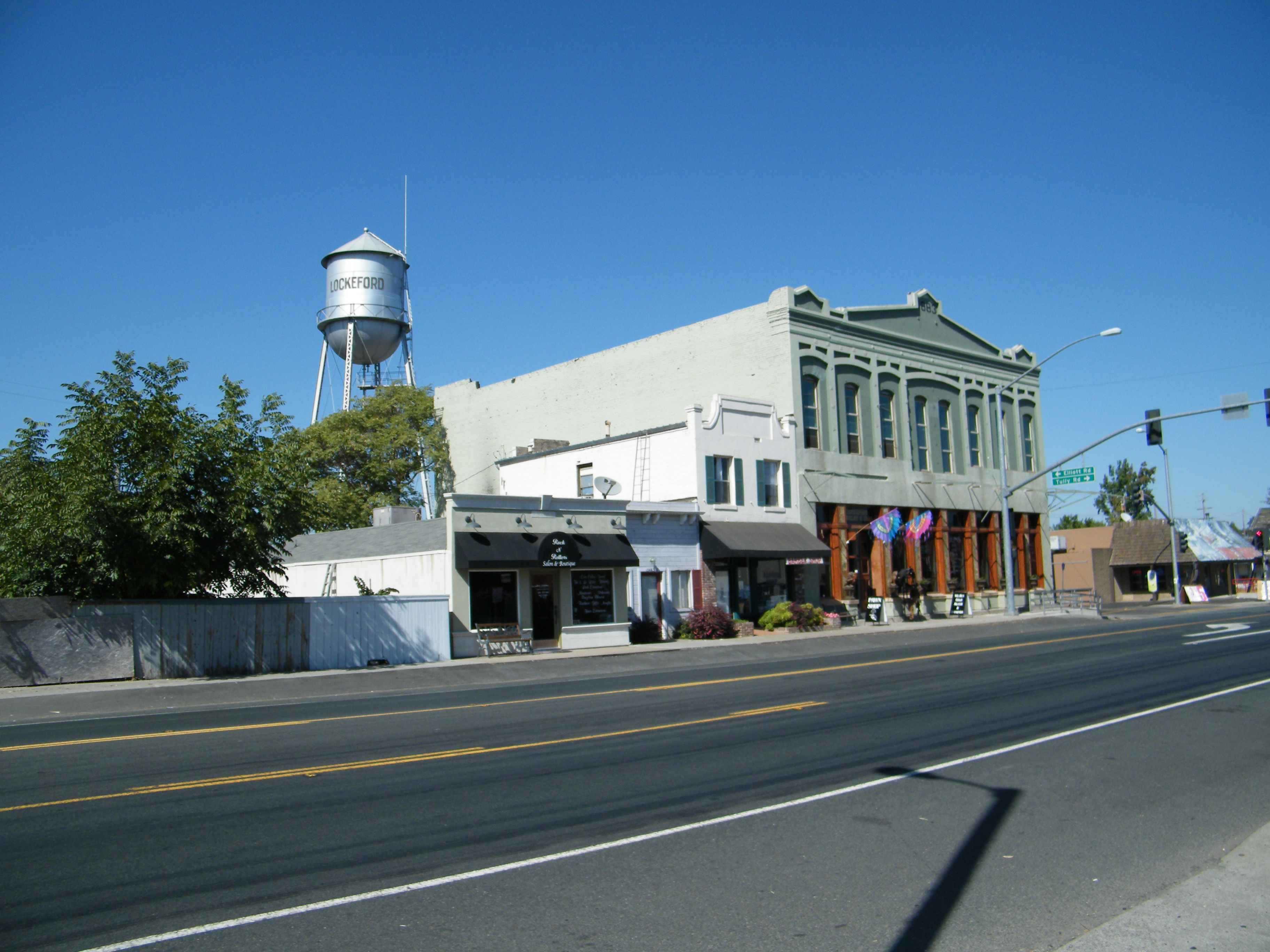 Downtown Lockeford, the old commercial block with a water tower — located on California State Route 88 in San Joaquin County, California. A California Historical Landmark in San Joaquin County.